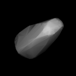 3D convex shape model of 1111 Reinmuthia, computed using light curve inversion techniques. J. Hanuš, J. Ďurech, M. Brož, B. D. Warner (June 2011). "A study of asteroid pole-latitude distribution based on an extended set of shape models derived by the lightcurve inversion method". Astronomy and Astrophysics 530: A134. ISSN 0004-6361. arXiv